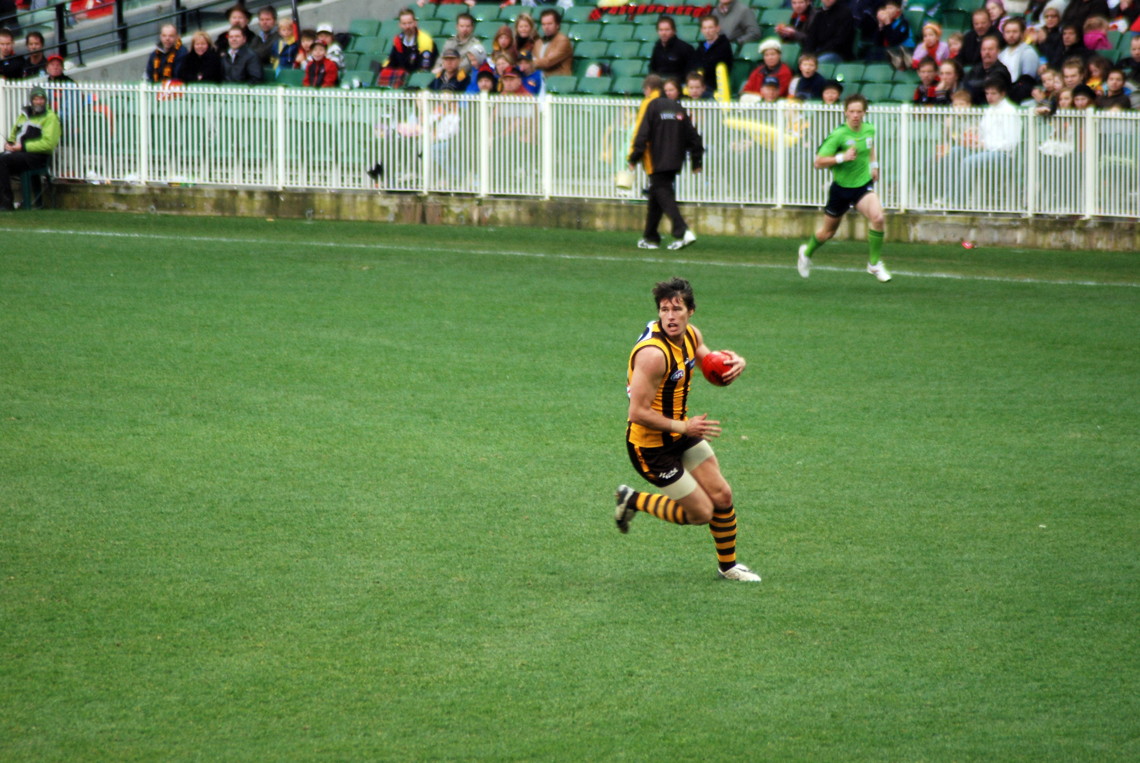 A player of Australian rules football.